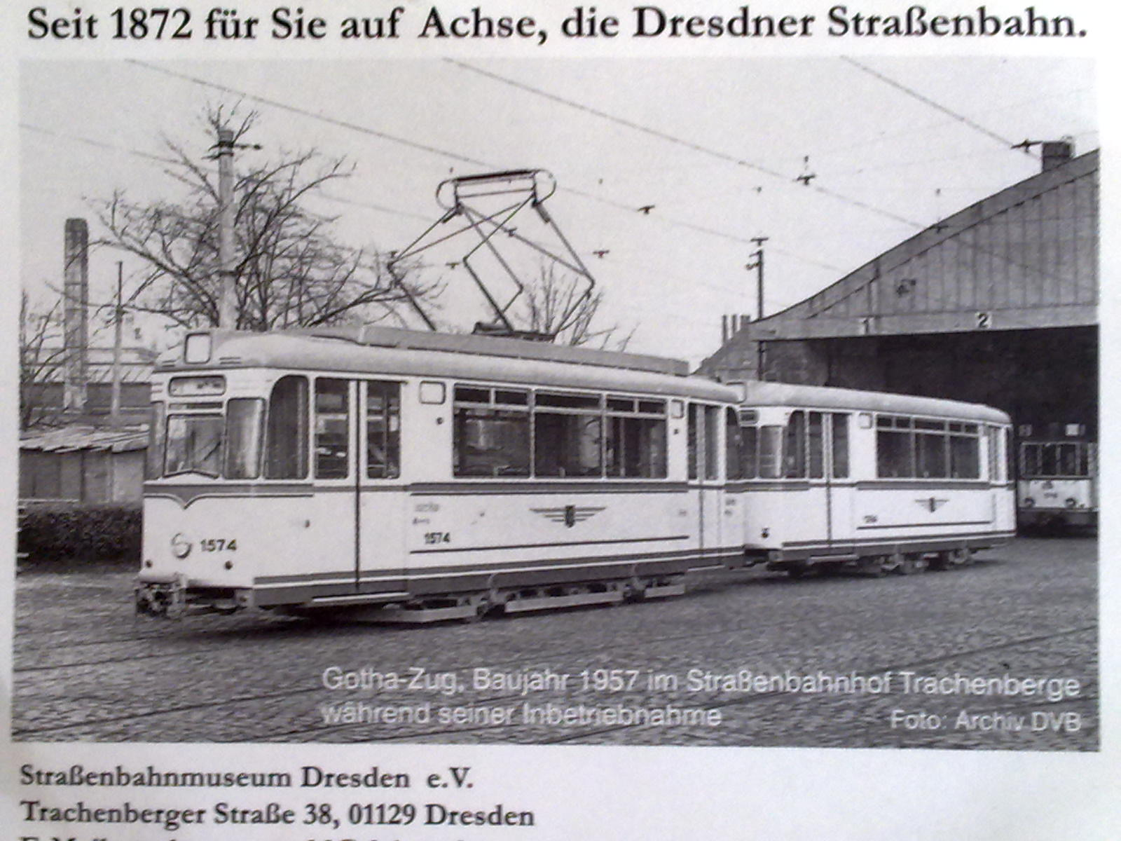 Straßenbahnmuseum Dresden Tramway museum Dresden entrance ticket